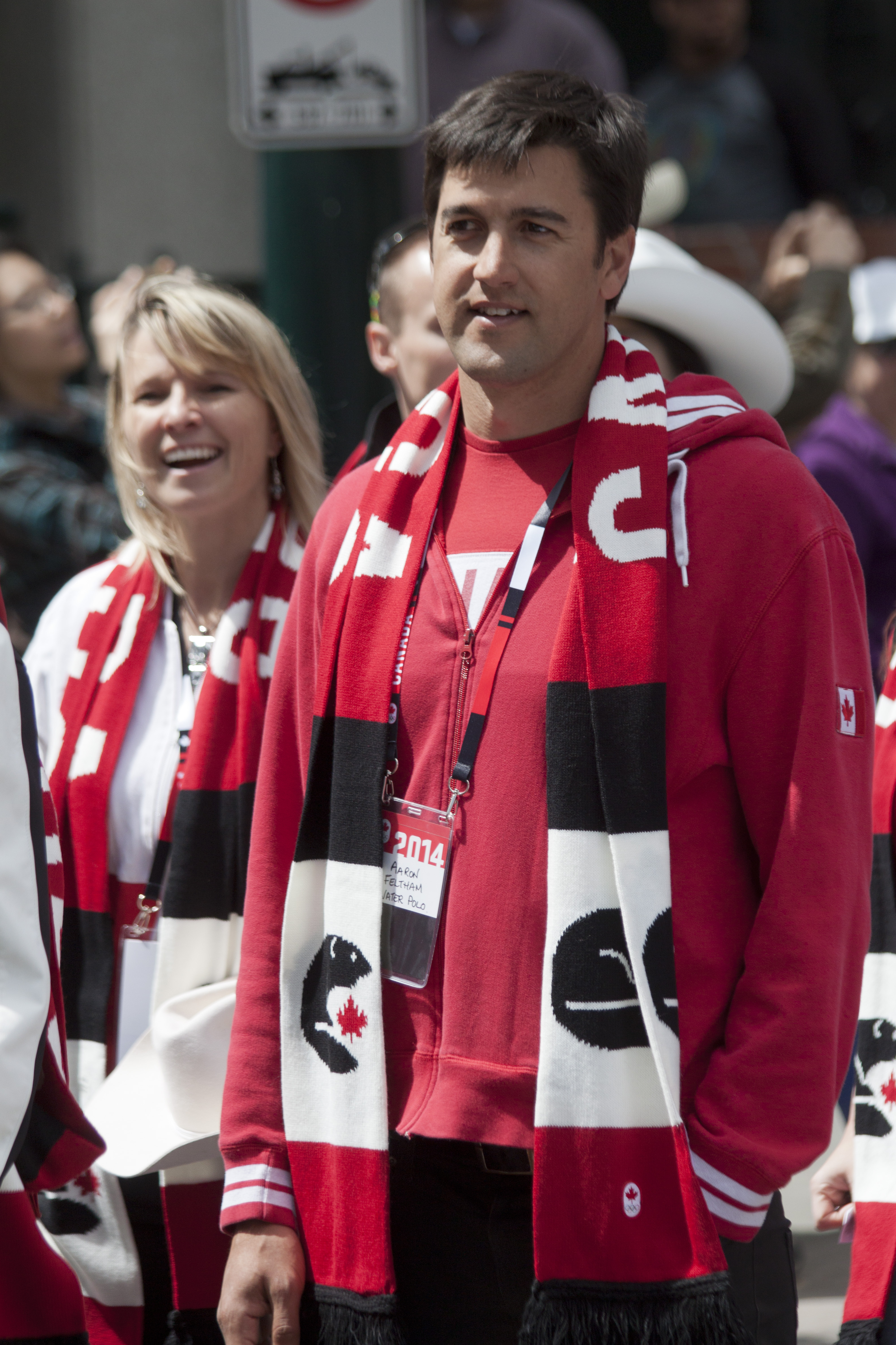 Aaron Feltham at the Parade of Champions in downtown Calgary on June 6, 2014. Image has been cropped.